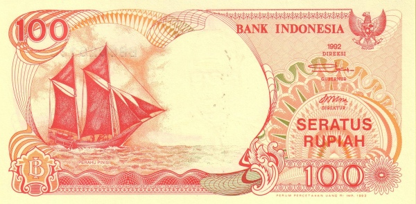 Indonesian currency issued 1976-2000.